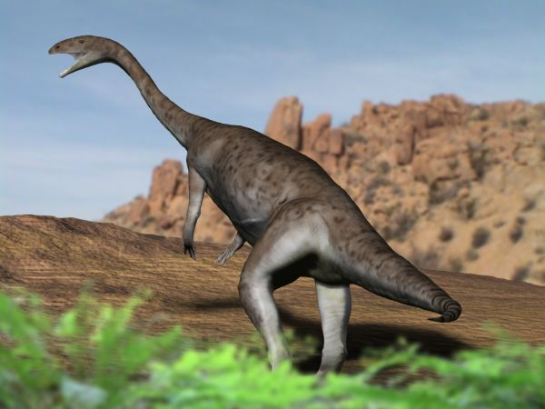 Anchisaurus